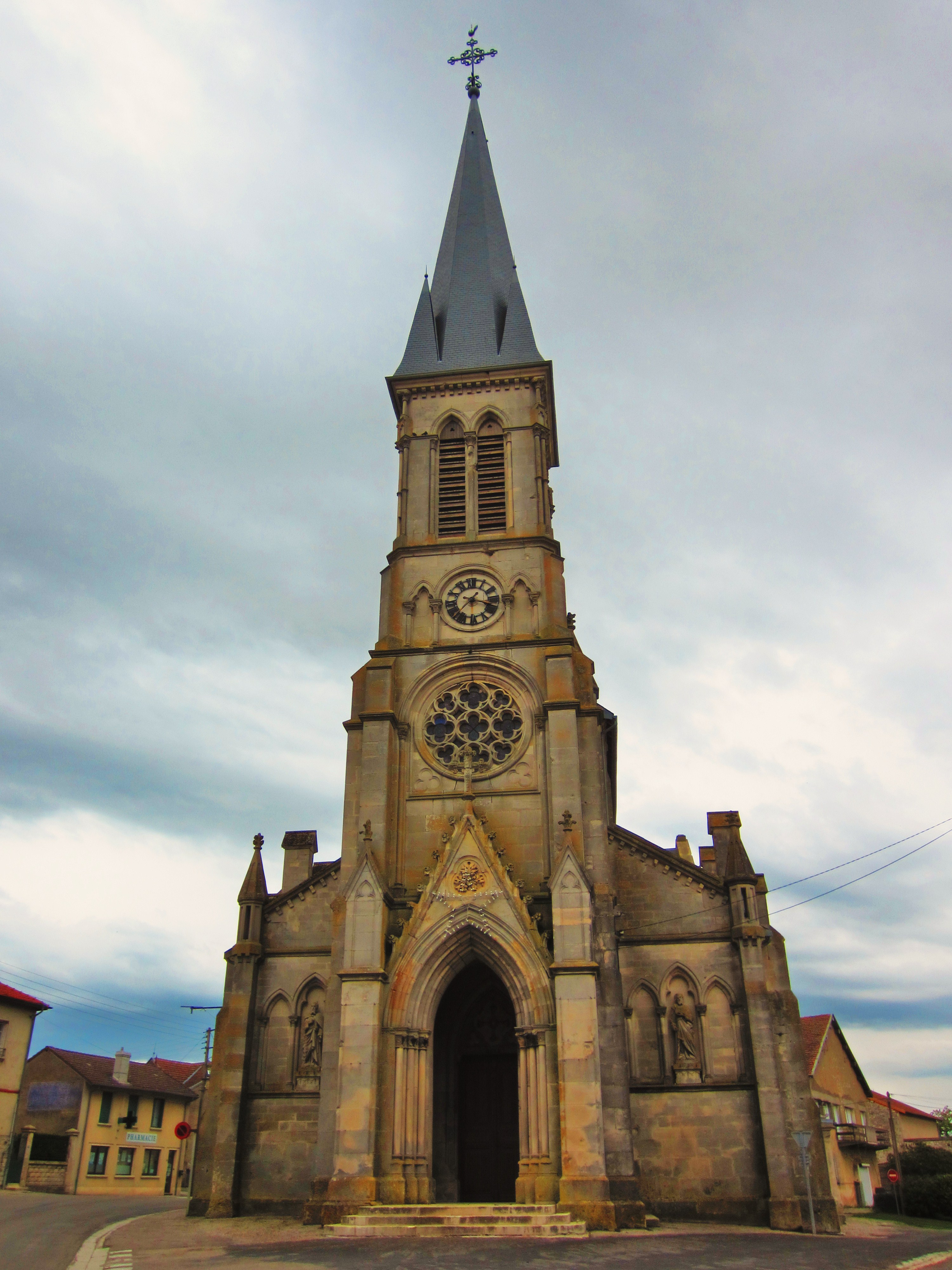 Lacroix Meuse church